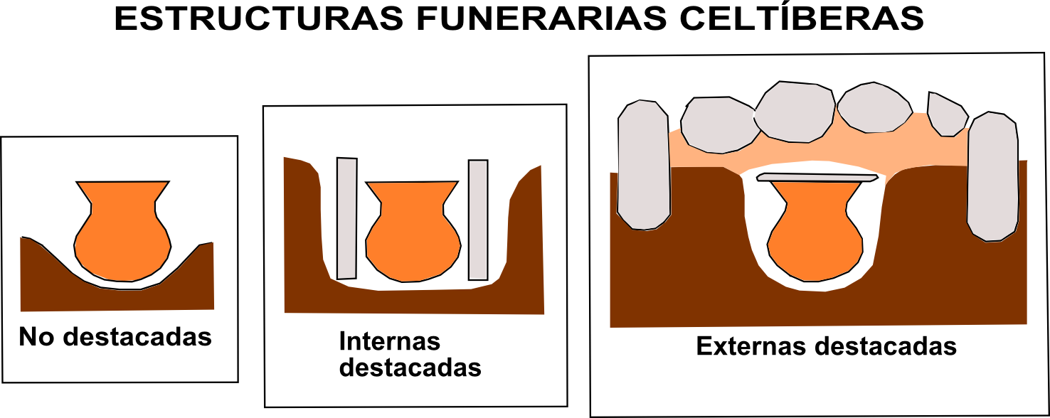 Representation of funerary structures of Celtiberians.